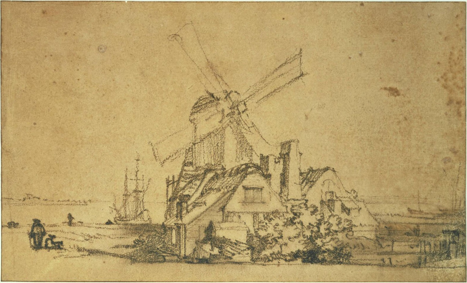 In the 17th century Amsterdam still had city walls with triangular fortifications. On each of these stood a windmill and a few houses. The fortification stood roughly where nowadays the train enters the city on the northwest. In the background the River IJ is visible.